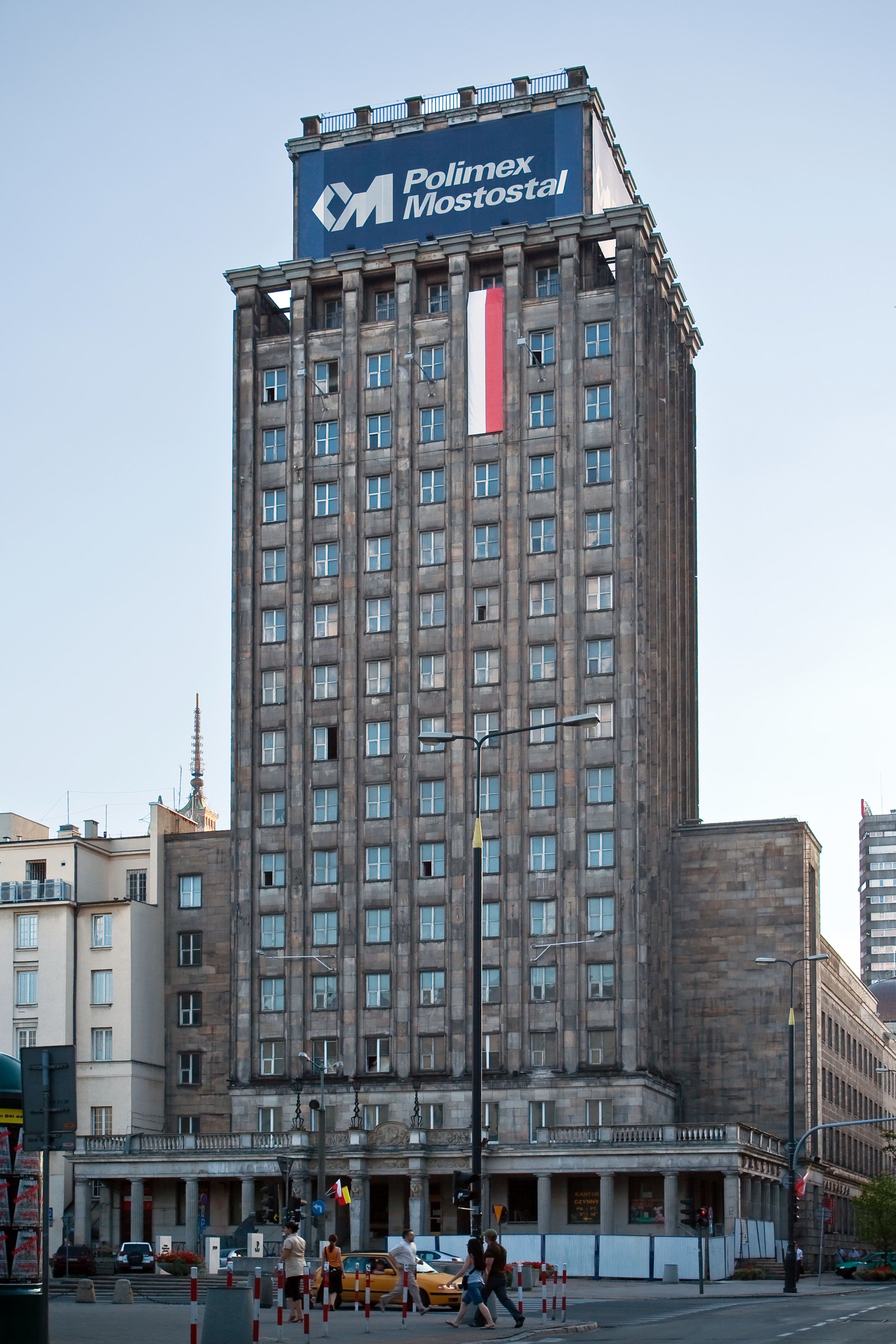 Warsaw Prudential bulding. 2008.